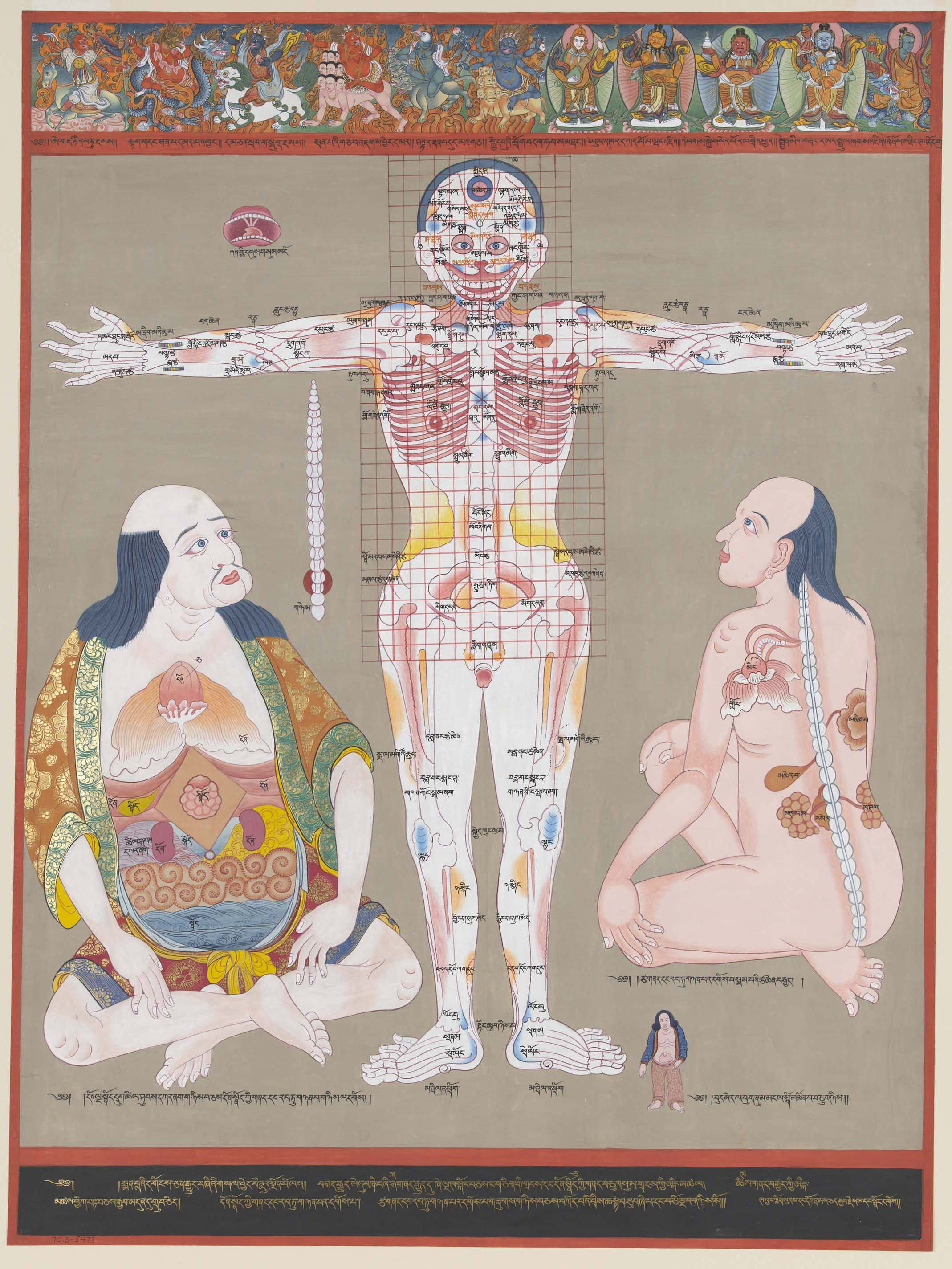 The Blue Beryl - anatomy of vulnerable points plate